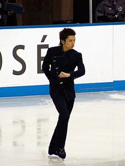 Yamato Tamura at the 2003 NHK Trophy.